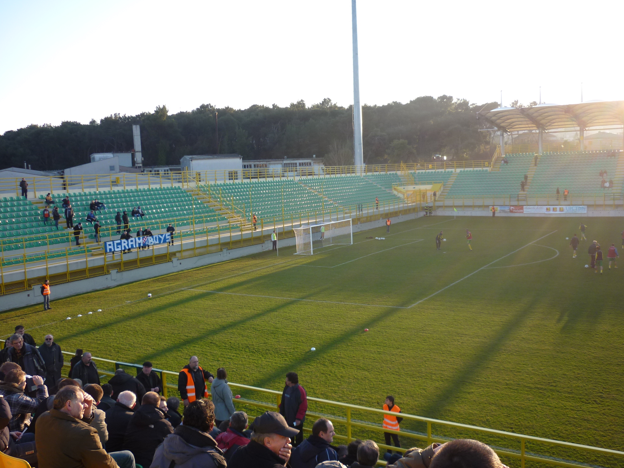 Stadium Aldo Drosina in Pula